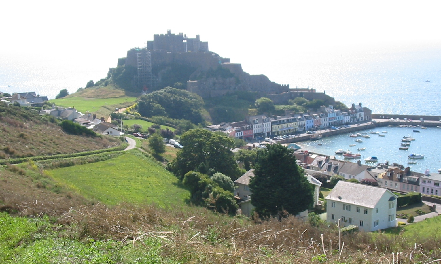 Mont Orgueil, a castle (also known as Gorey Castle) in Jersey